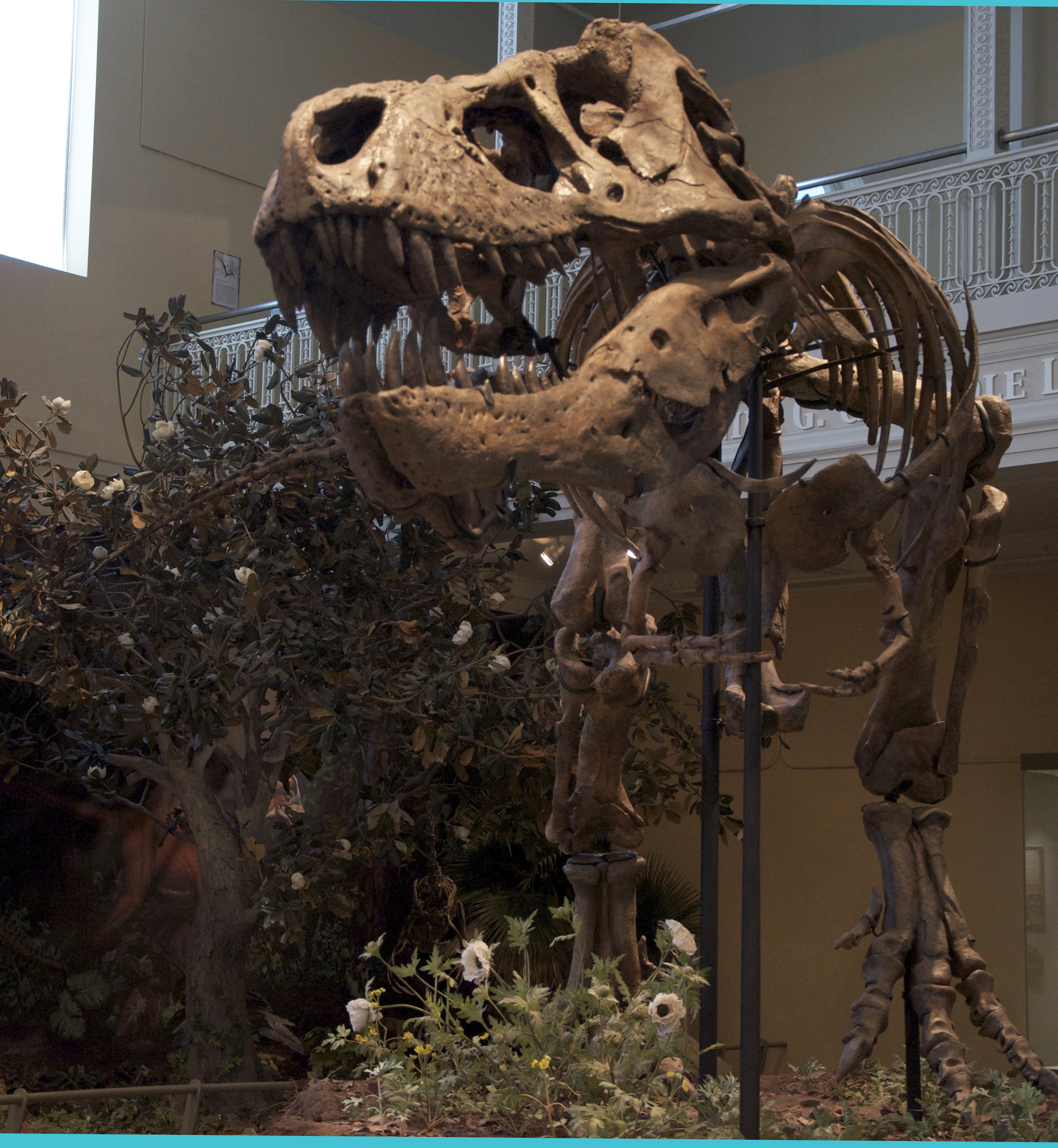 "Peck's Rex" skeletal cast at the Carnegie Museum of Natural History, Pittsburgh